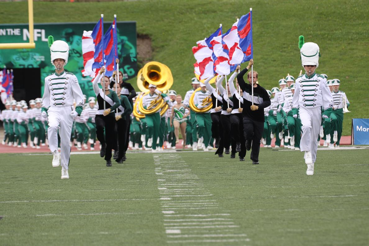 The Eastern Michigan University Marching Band, "The Pride of the Penninsula", taking the field for the first time in 2011, to perform their pregame show before an American football game between Eastern Michigan University and Alabama State.